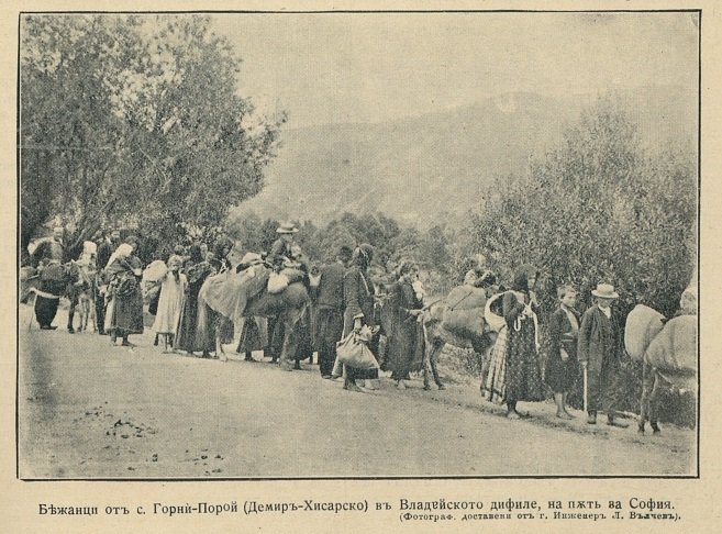 Gorni Poroy Bulgarian Refugees 1913